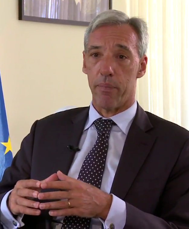 João Gomes Cravinho (b. 1964), Portuguese diplomat and government minister, in 2017.